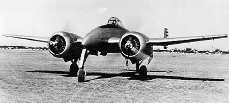 Grumman XP-50